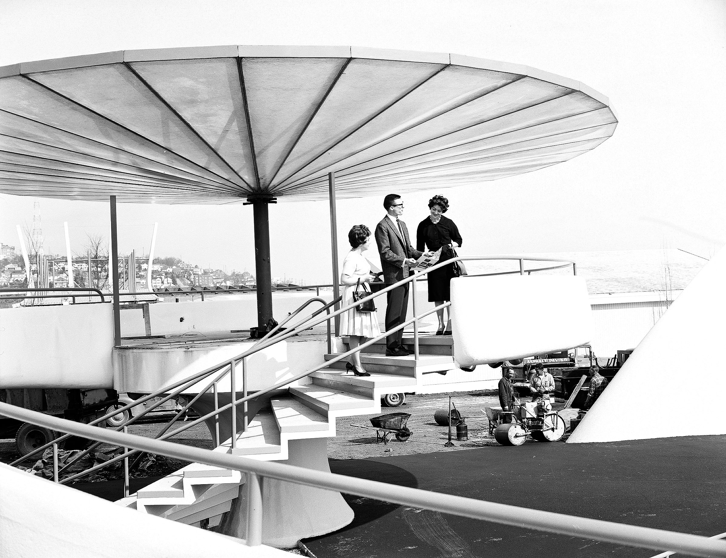 Pavilion of Electric Power at Century 21 Exposition (Seattle World's Fair), 1962 Item 165725, City Light Photographic Negatives (Record Series 1204-01), Seattle Municipal Archives.